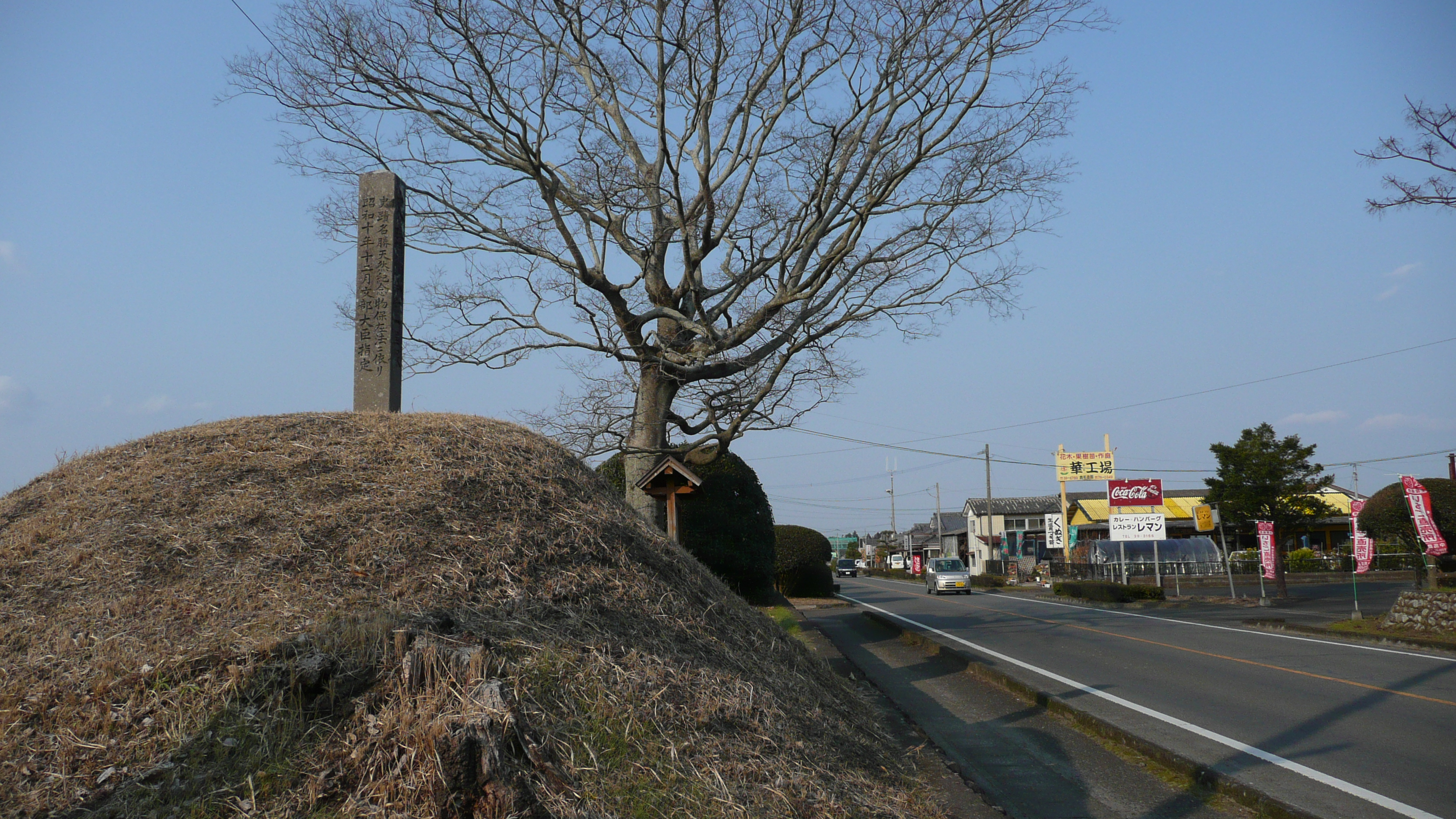 Imamachi Ichirizuka (National Route 269 - Imamachi, Miyakonojō City, Miyazaki, Japan)